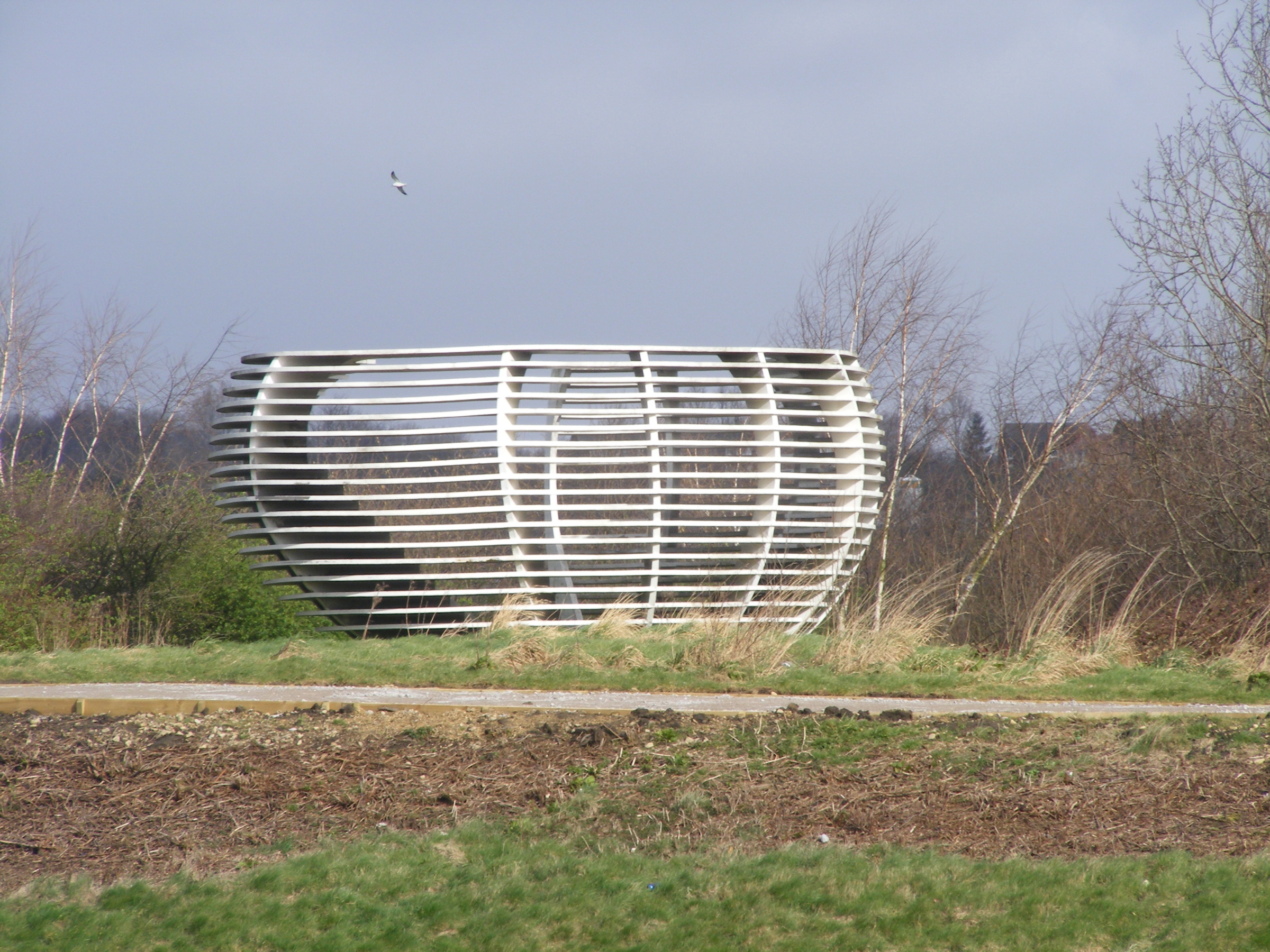 See where this picture was taken. [?]